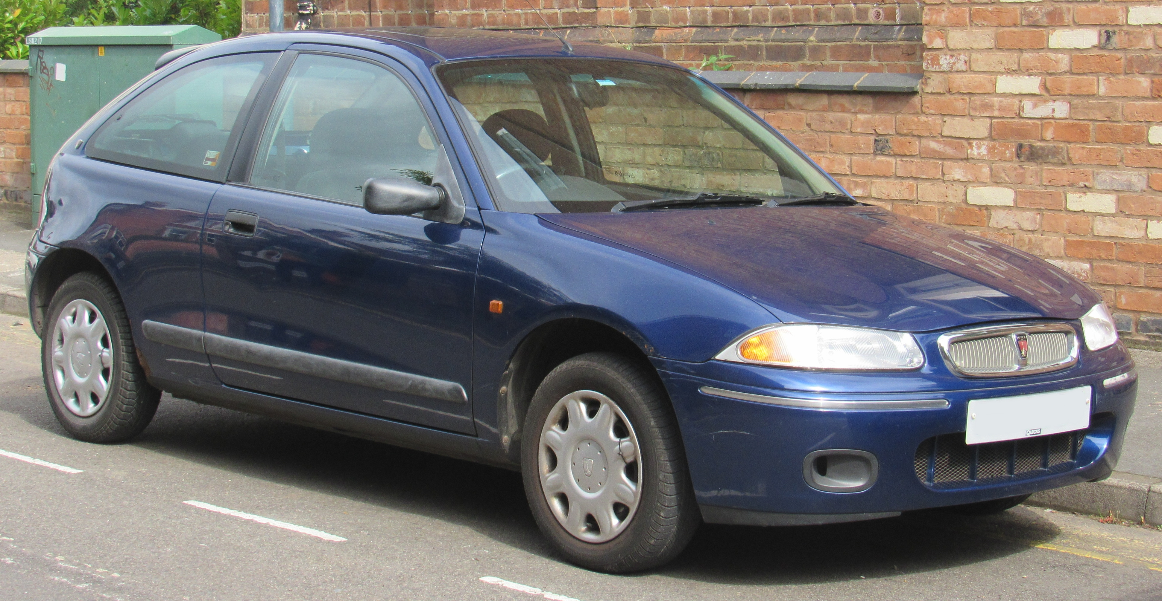 1998 Rover 214 Si 1.4 Front Taken in Leamington Spa